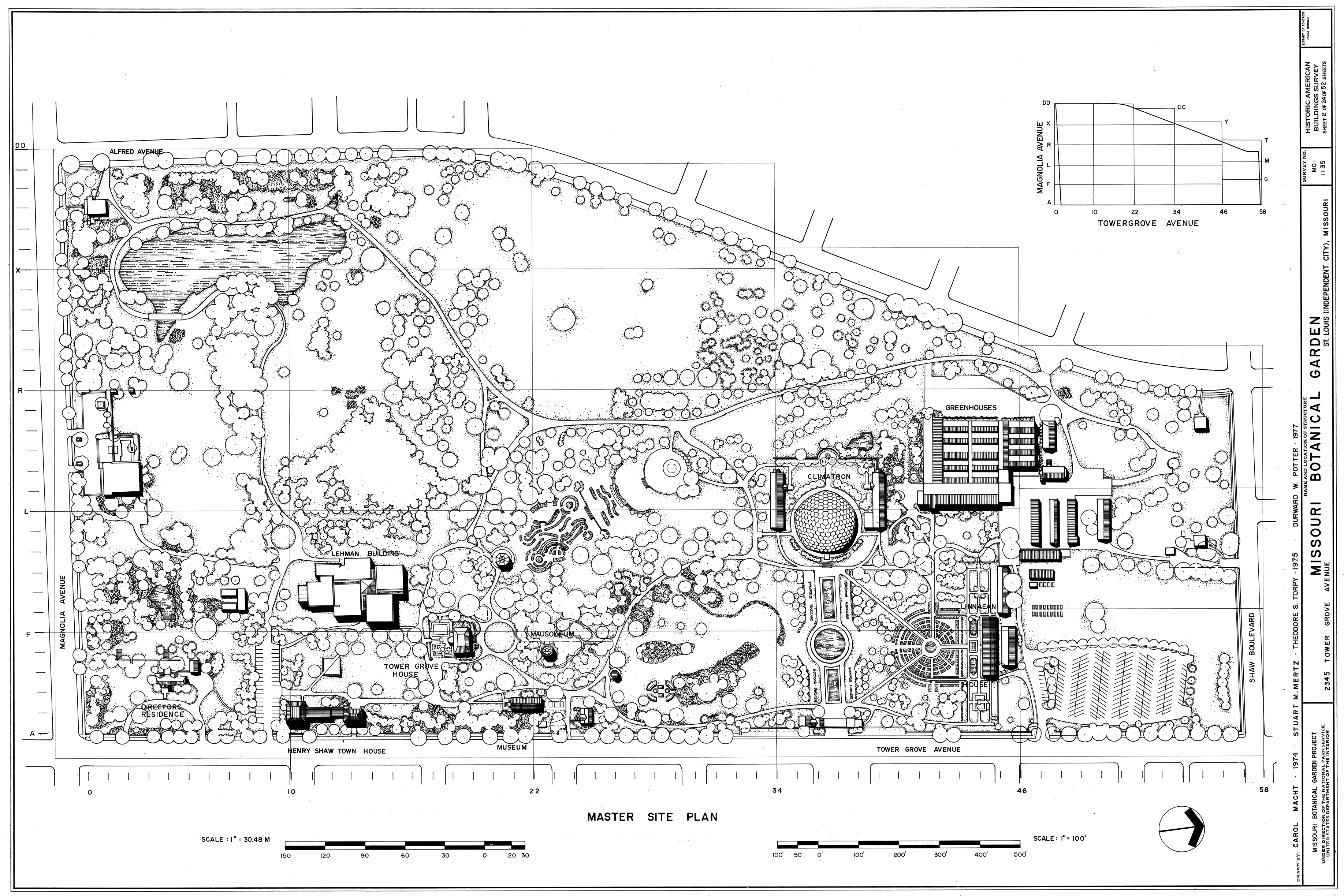 Missouri Botanical Garden, 2345 Tower Grove Avenue, Saint Louis, Missouri (St. Louis City County, MO) Missouri Botanical Garden - site plan, drawn 1974-1977.